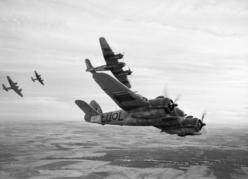 Royal Canadian Air Force Bristol Beaufighter TF.Xs (NV427 'EO-L' nearest) of No. 404 Squadron RCAF based at Dallachy, Morayshire (UK), breaking formation during a flight along the Scottish coast.